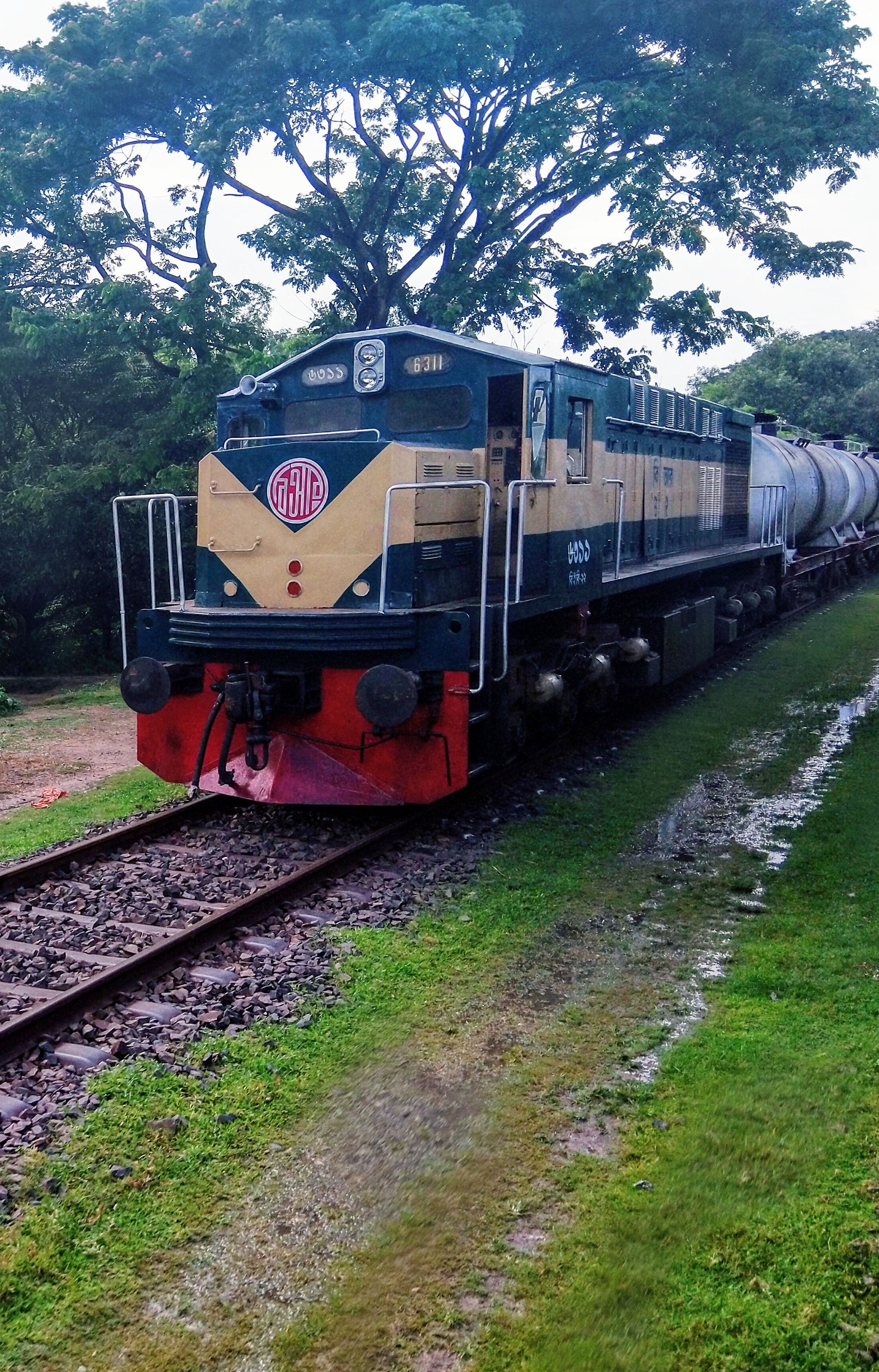 Bangladesh Railways Train Engine